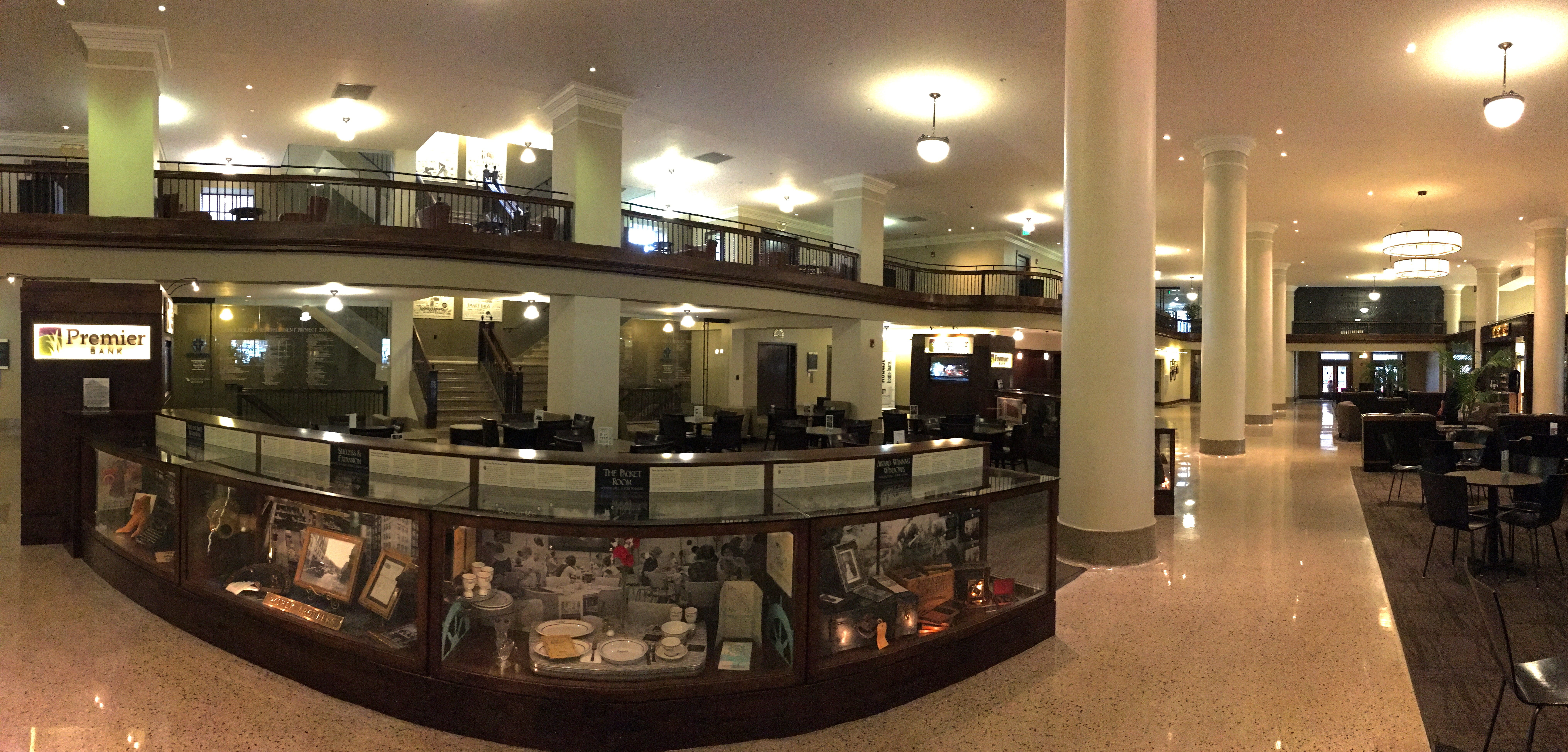 Main floor interior of Roshek Brothers Department Store building in Dubuque, Iowa.